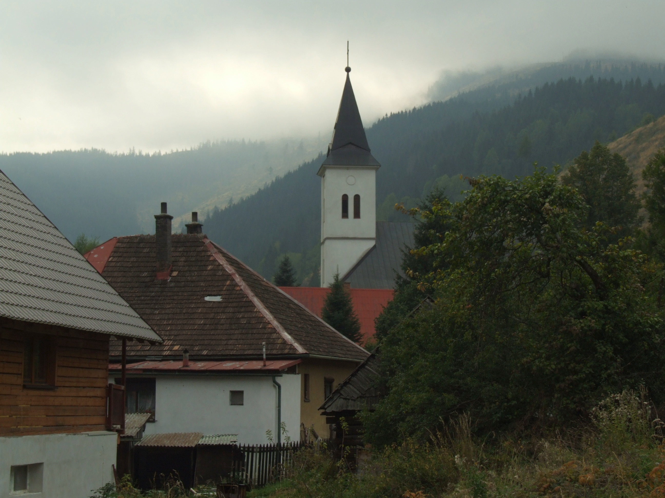 Nižná Boca, Slovakia - church